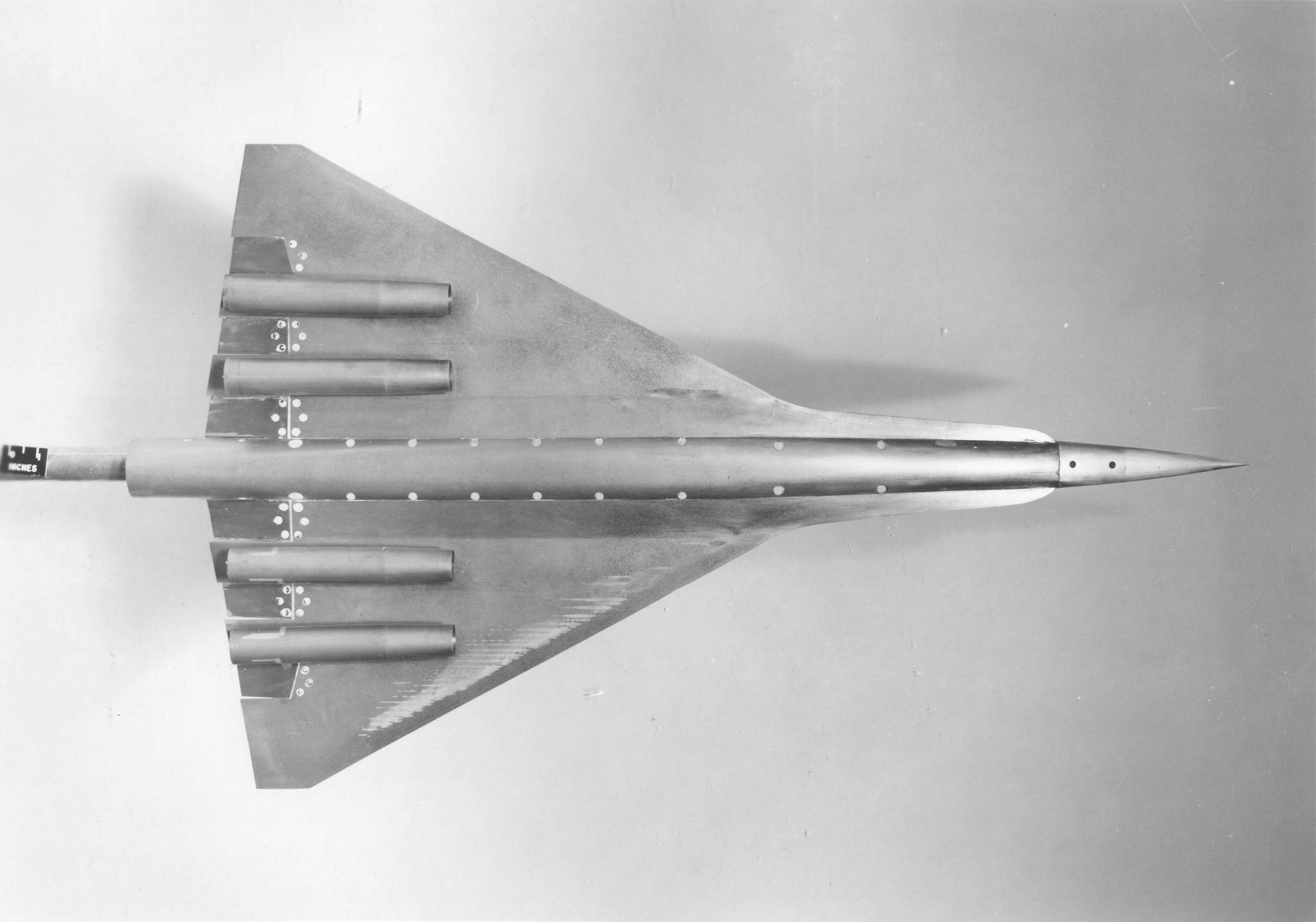 NASA test model of Lockheed L-2000 SST